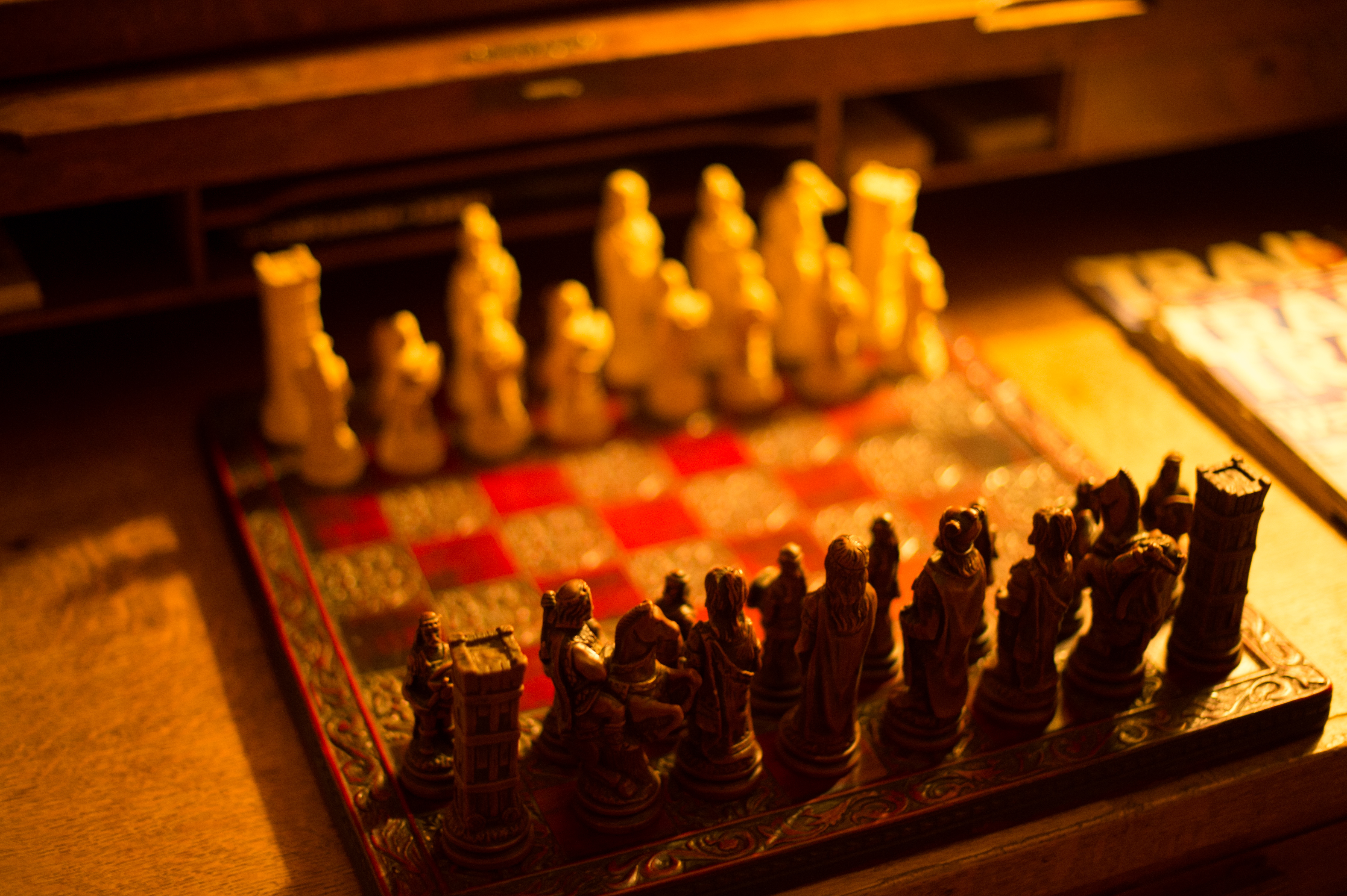 I know how to play chess and I like playing chess. Unfortunately playing chess is not very common in Japan. And this is first time to see this wonderful and accurately made chessboard. I've only played chess with iPod touch and PC. It must be fun to play chess with such a nice chessboard. The problem is I'm a bad chess player LOL Any idea how to become a better player? チェスの遊び方は知っています。チェスで遊ぶのも好きです。でも、iPod touchとパソコン上でしか遊んだことがないので、こんなに豪華なチェスボードは初めて見ました。こんなにすごいチェスボードでチェスを遊ぶと楽しいんでしょうね。 ただ、一つ問題がありまして、私はチェスがものすごくへたくそです。上達するいい方法があったらぜひ教えてくださいw [ Nikon D4, Nikon AF-S NIKKOR 50mm f/1.4G, f/1.4, 1/13sec, ISO1400, Lightroom 4.3 ]